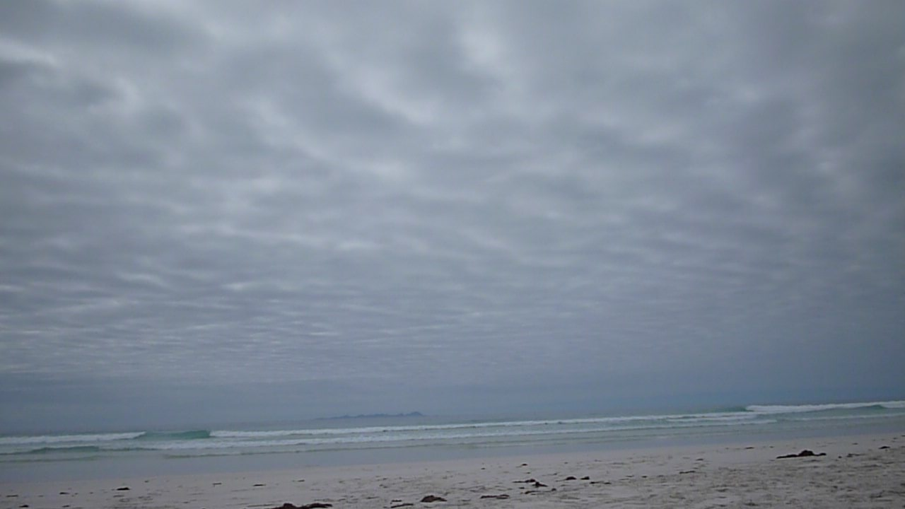 The beach at Tortuga Bay - Island of Santa Cruz, Galapagos photographed by David Adam Kess From Wikipedia, the free encyclopedia Tortuga Bay is located on the Santa Cruz Island, about a 20-minute walk from the main water taxi dock in Puerto Ayora. The walking path is 1.55 miles (2,490 m) and is open from six in the morning to six in the evening. Visitors must sign in and out at the start of the path with the Galapagos Park Service office. Toruga Bay has a gigantic, perfectly preserved beach that is forbidden to swimmers and is preserved for the wildlife where many marine iguanas, galapagos crabs and birds are seen dotted along the lava rocks. There is a separate cove where you can swim where it is common to view white tip reef sharks swimming in groups, small fish, birds, and gigantic galápagos tortoise.